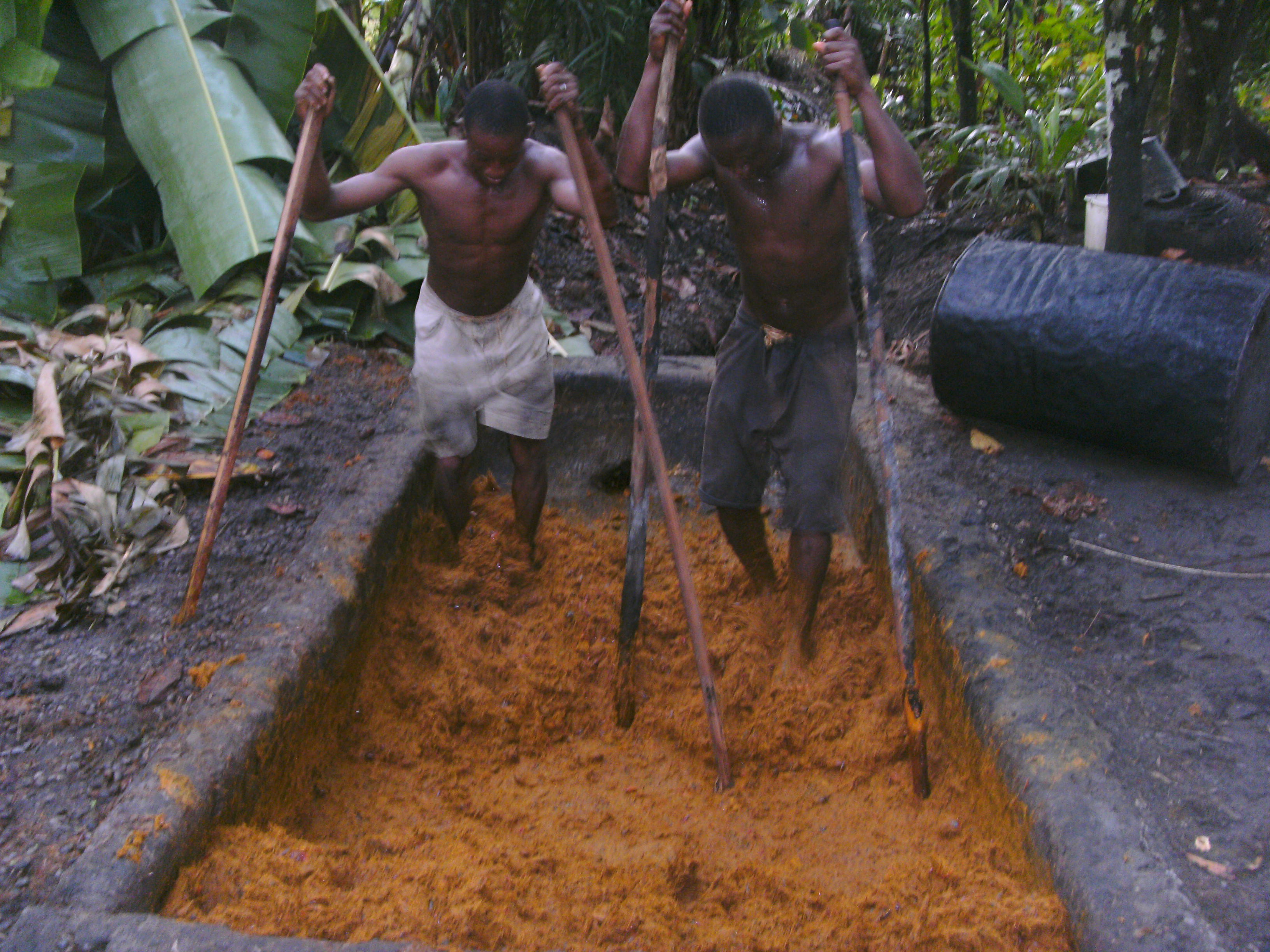 men mixing the palm fruit after boiling to squeeze out the juice